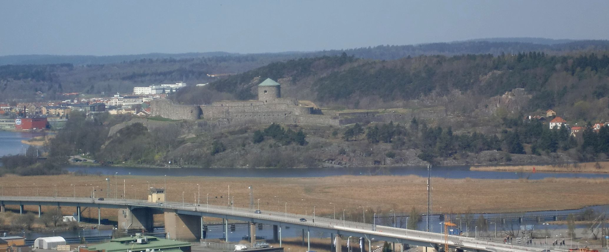 Bohus fortress as seen from the southeast. In the front is the river Göta älv, until 1658 border between Sweden and Norway. In the background is the town Kungälv.